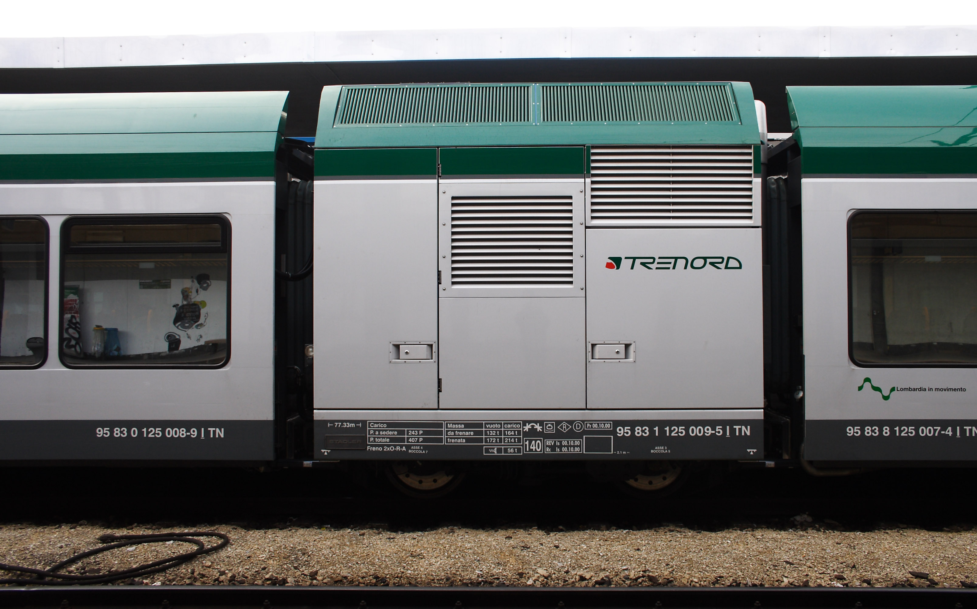 Engine section of ATR 125 Besanino